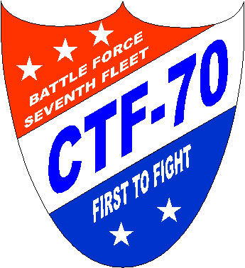 Commander Task Force 70 (CTF-70) logo